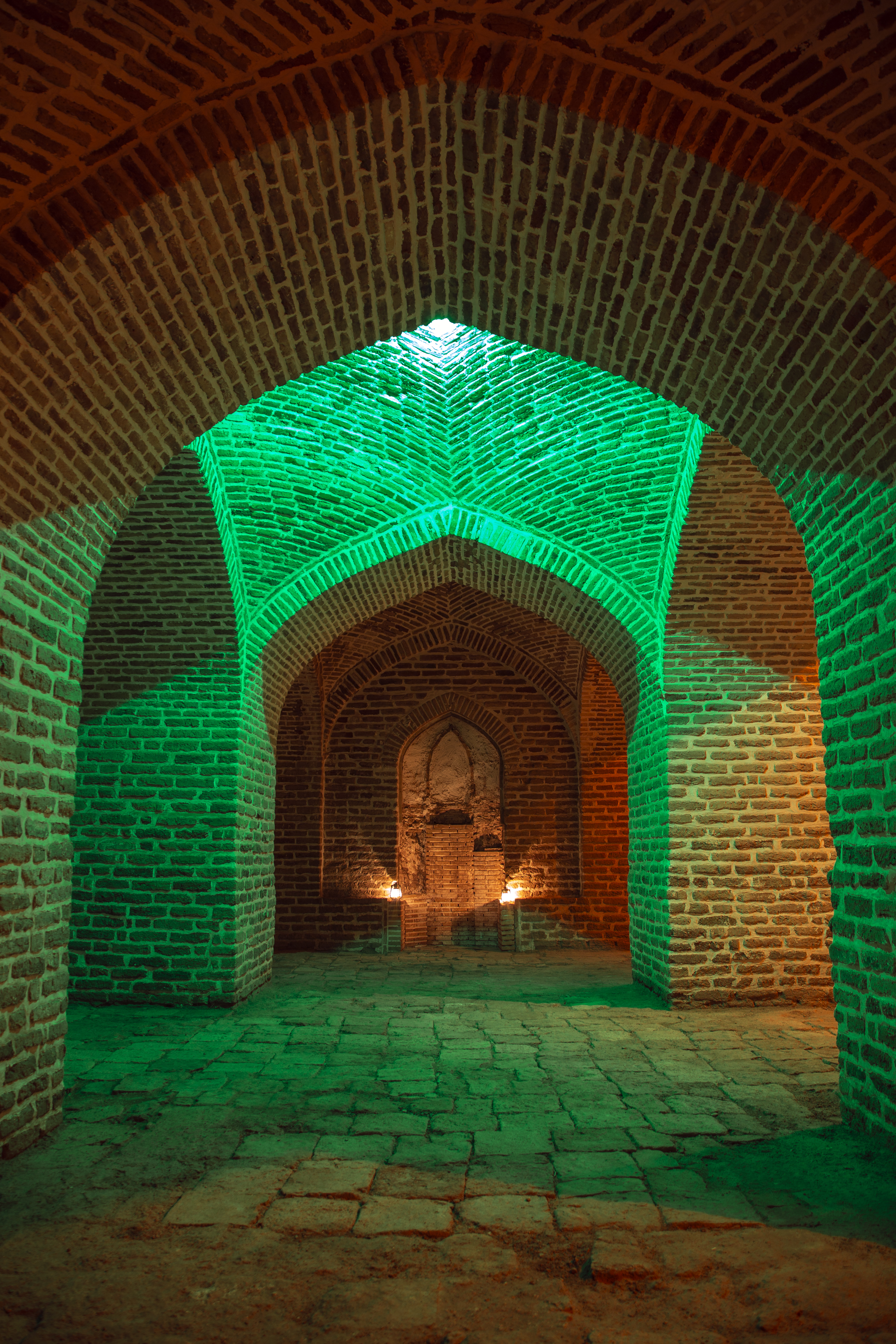 Deir-e Gachin Caravansarai is one of the greatest caravansarais of Iran which is located in the center of Kavir National Park. Its unique qualities is the reason it is called “Mother of Iranian Caravansarais”. It is located in the Central District of Qom County, 80 kilometers north-east of Qom (60 kilometers into Garmsar Freeway) and 35 kilometers south-west of Varamin. (Photo by: Mostafa Meraji, wiki loves monuments 2018)